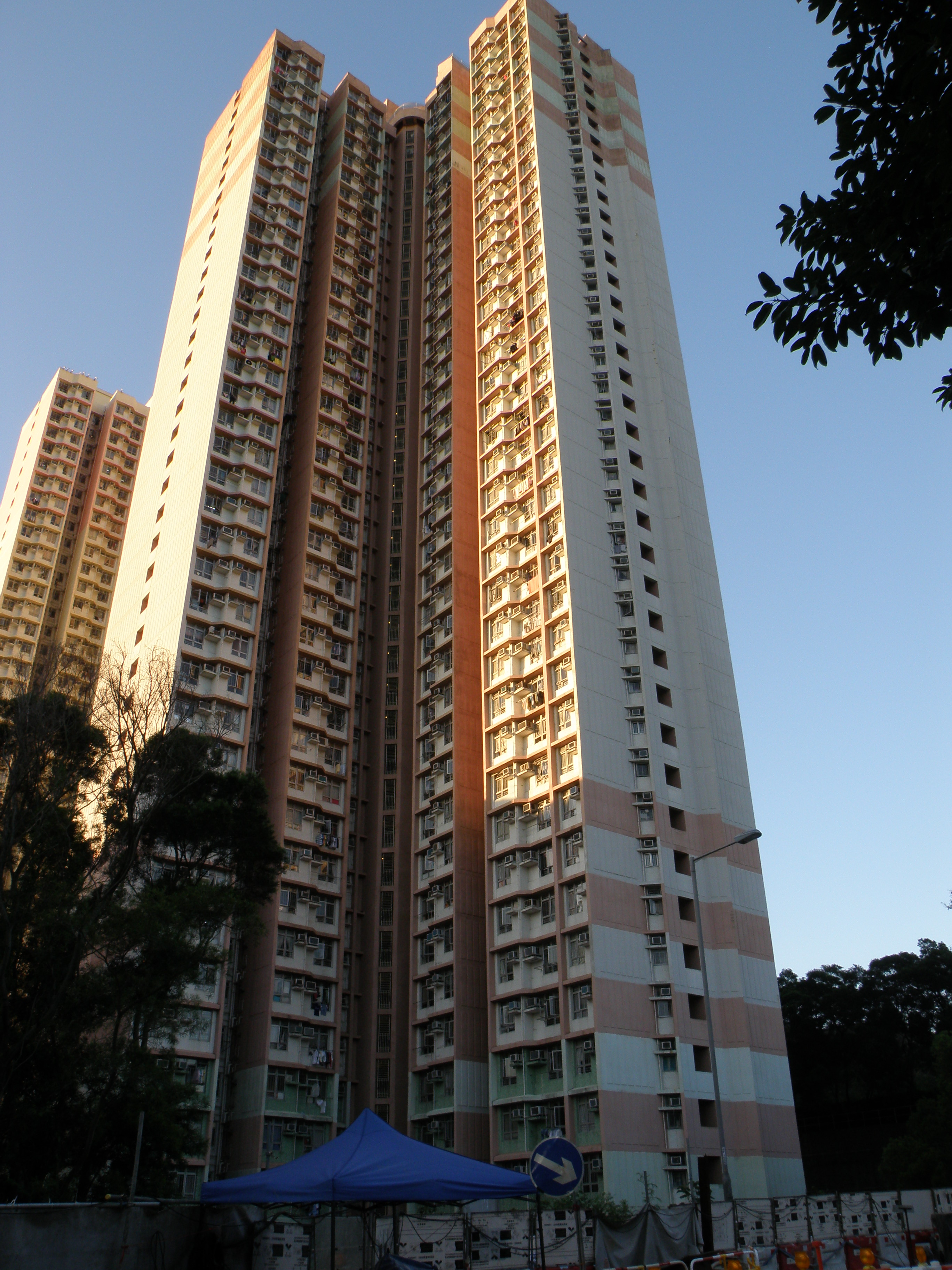 Kwun Hei Court, a Home Ownership Scheme residence in Ho Man Tin, Hong Kong.